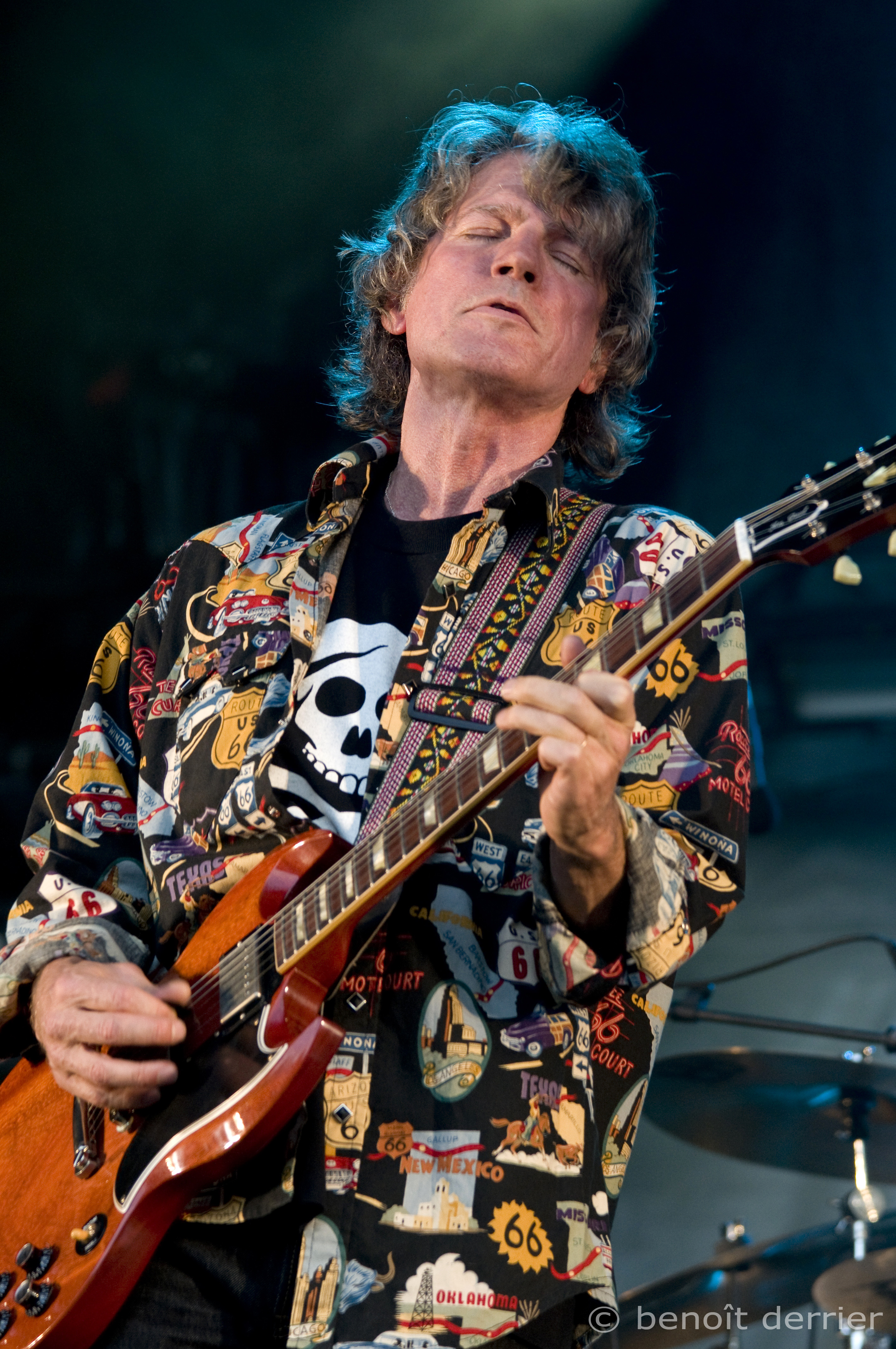 Paul Personne and Hubert-Félix Thiéfaine live at Aux Zarbs festival 2008 (Auxerre, France).